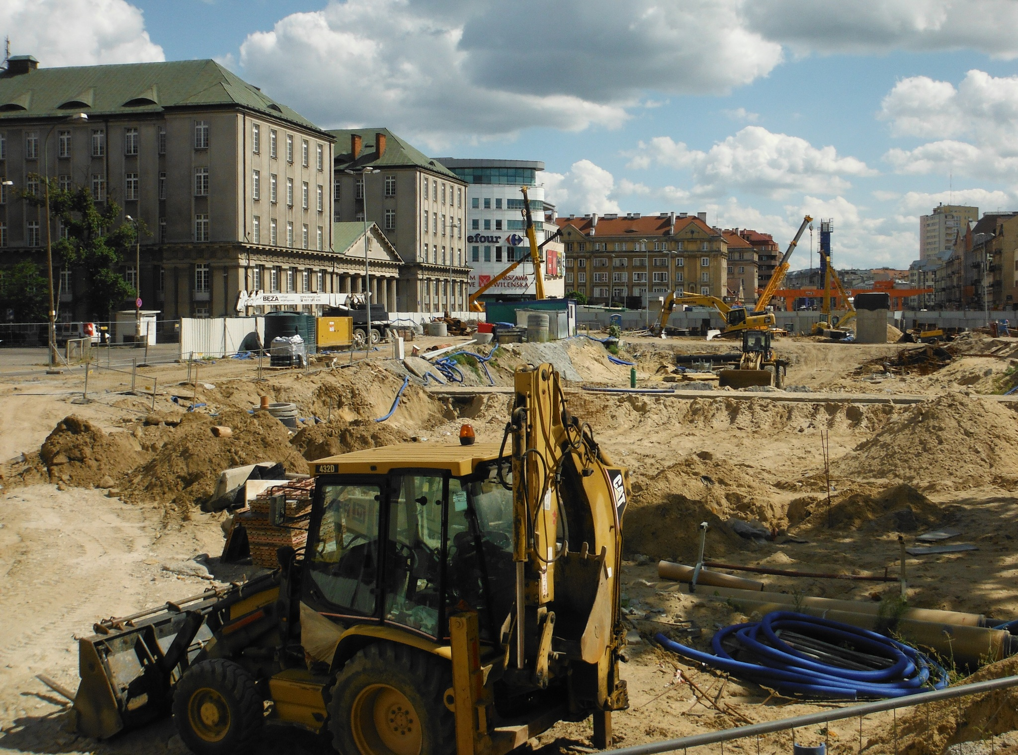 Dworzec Wileński metro station (under construction) in Warsaw (15th of August 2013).